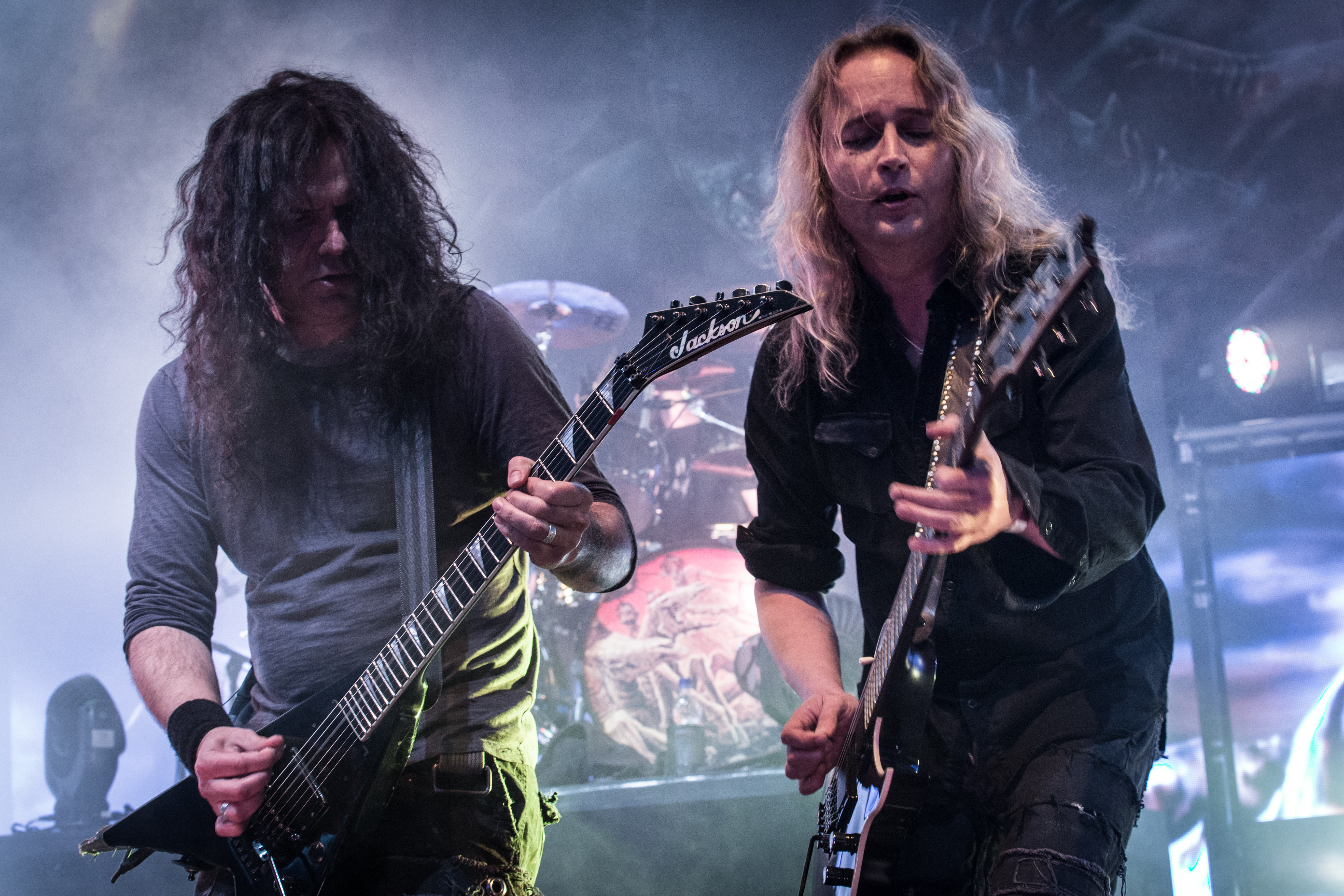 Kreator performing live at Rock Hard Festival, May 2015, Gelsenkirchen